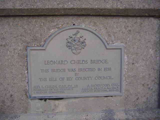 The plaque on the Leonard Childs Bridge The plaque showing the date of opening of the bridge